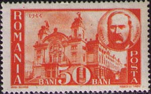 1945 Romanian Post, 50 bani, yellow orange, representing Andrei Mureşanu; Series:North Transilvania